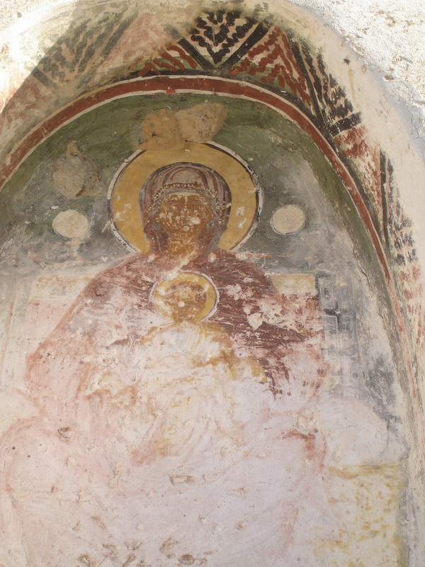 Tranovalto St Mary Church Fresco